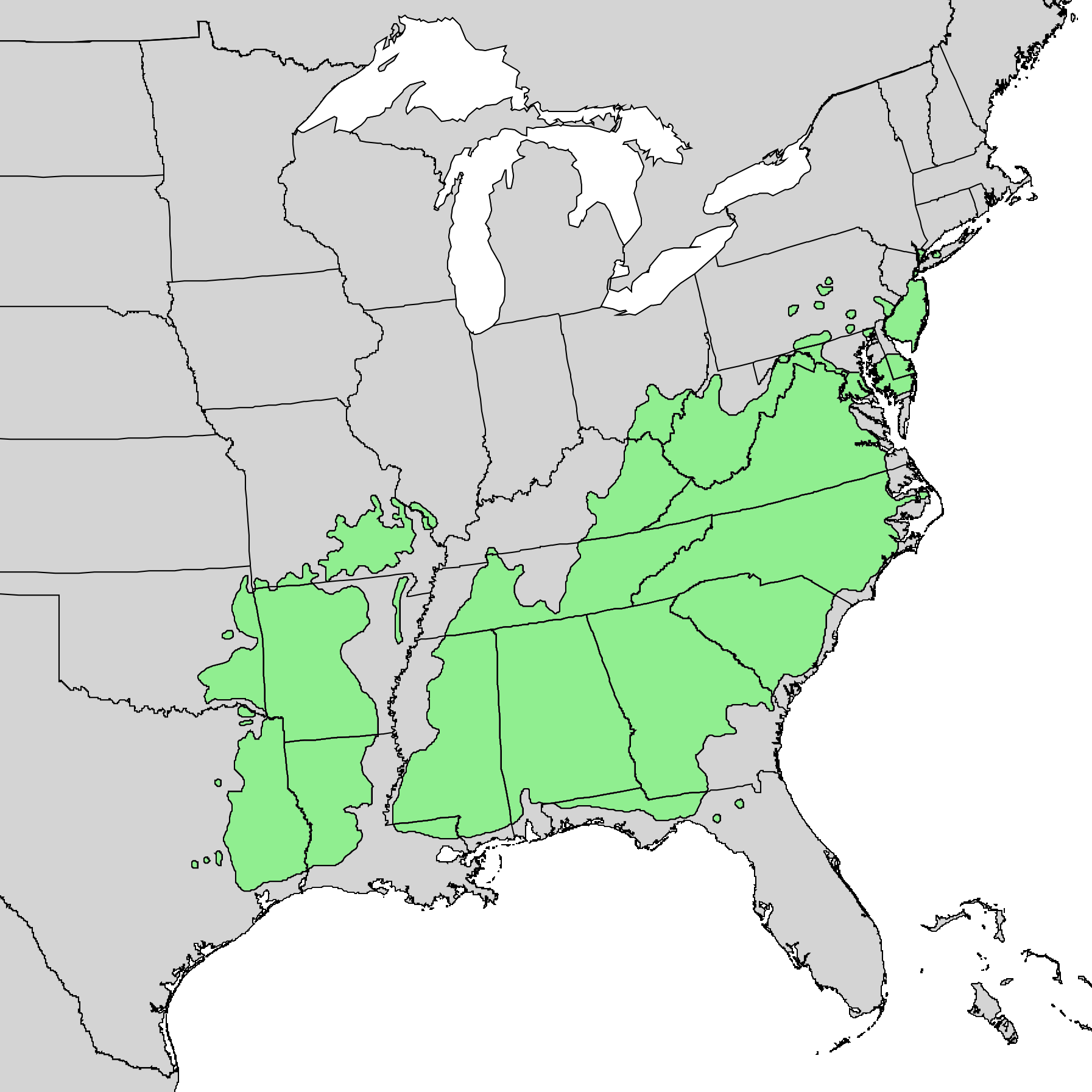 Pinus echinata natural range map